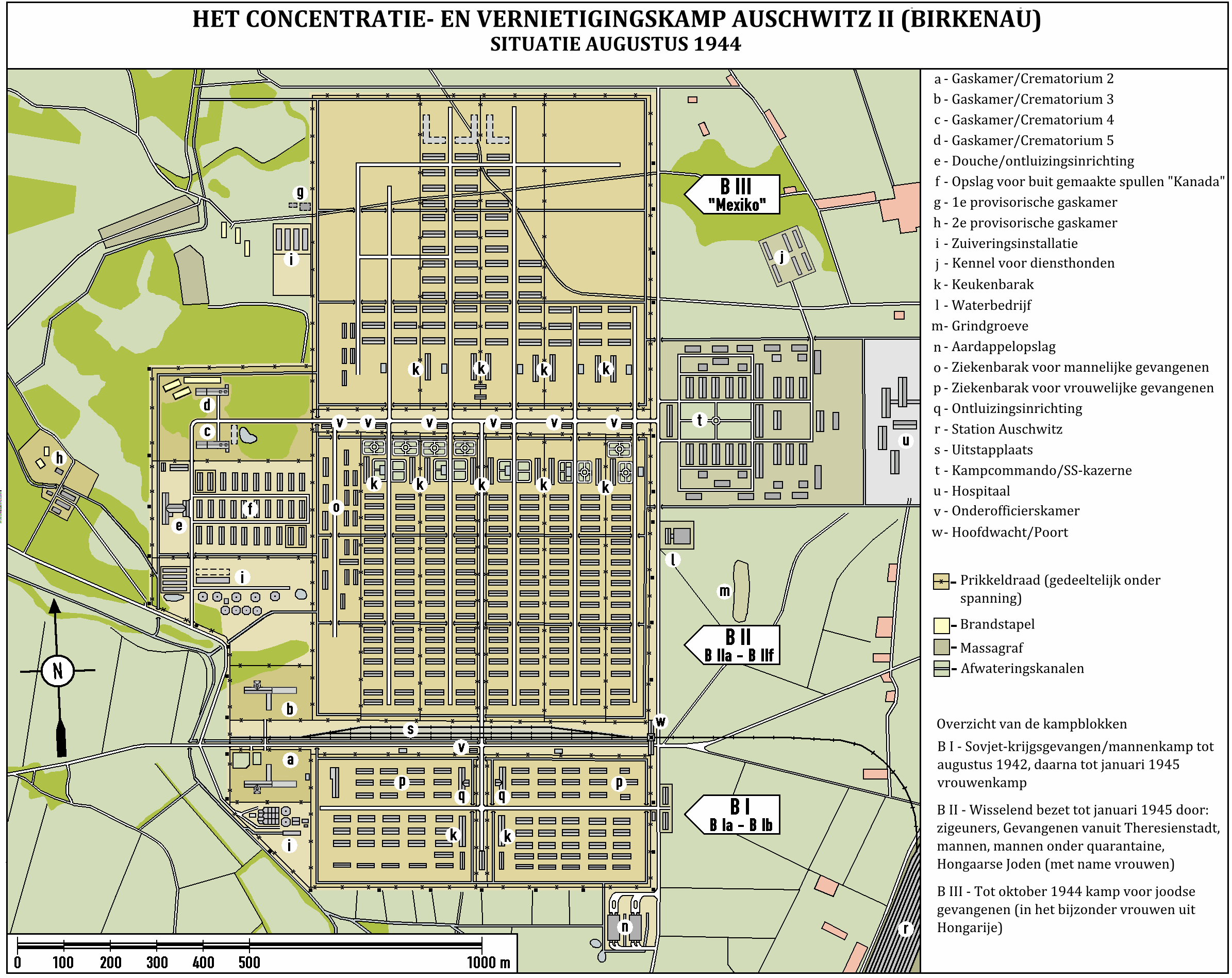 map of Auschwitz II (Birkenau) as it was in August 1944